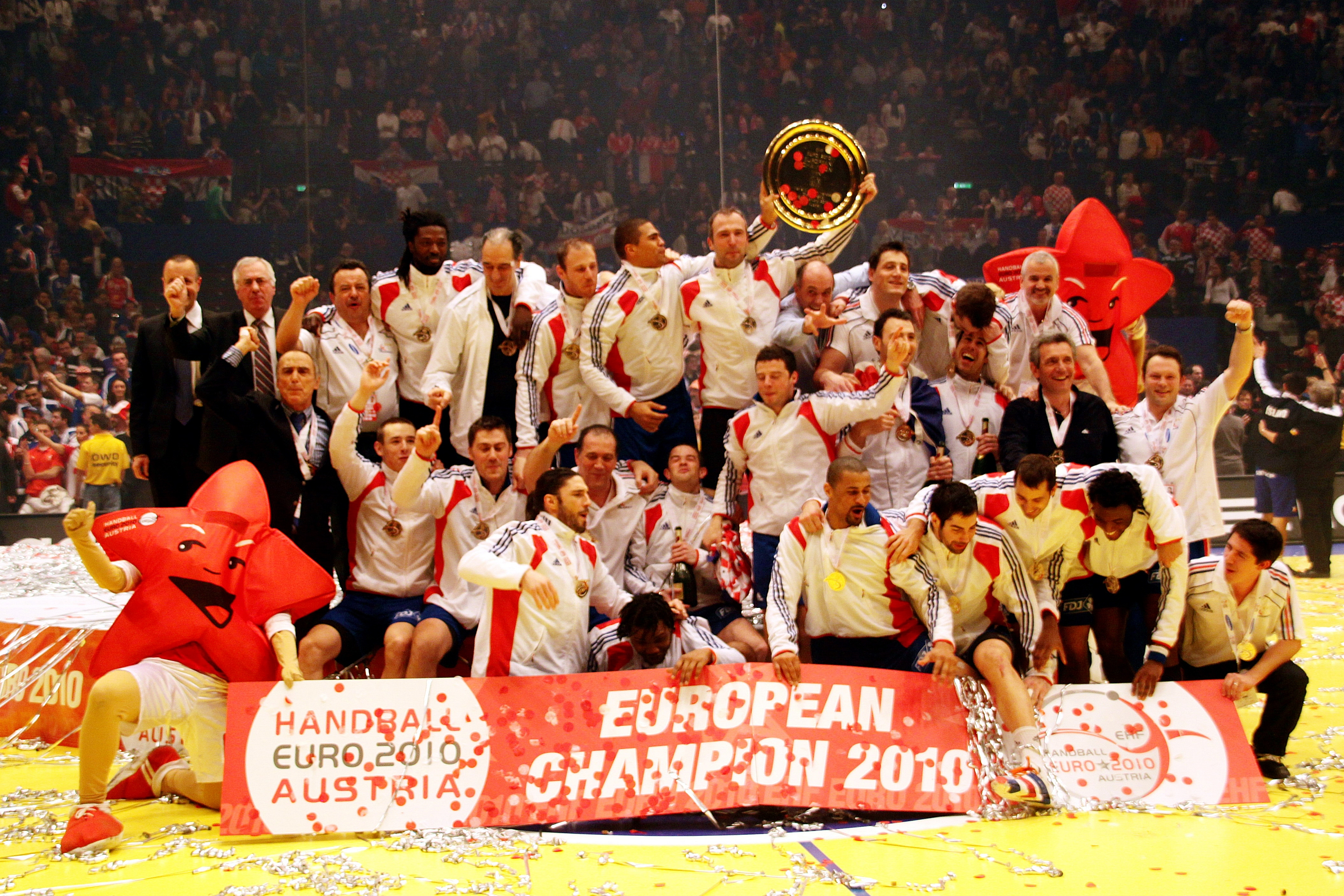 The players of the France national handball team are jubilant about the first place in the 2010 European Men's Handball Championship